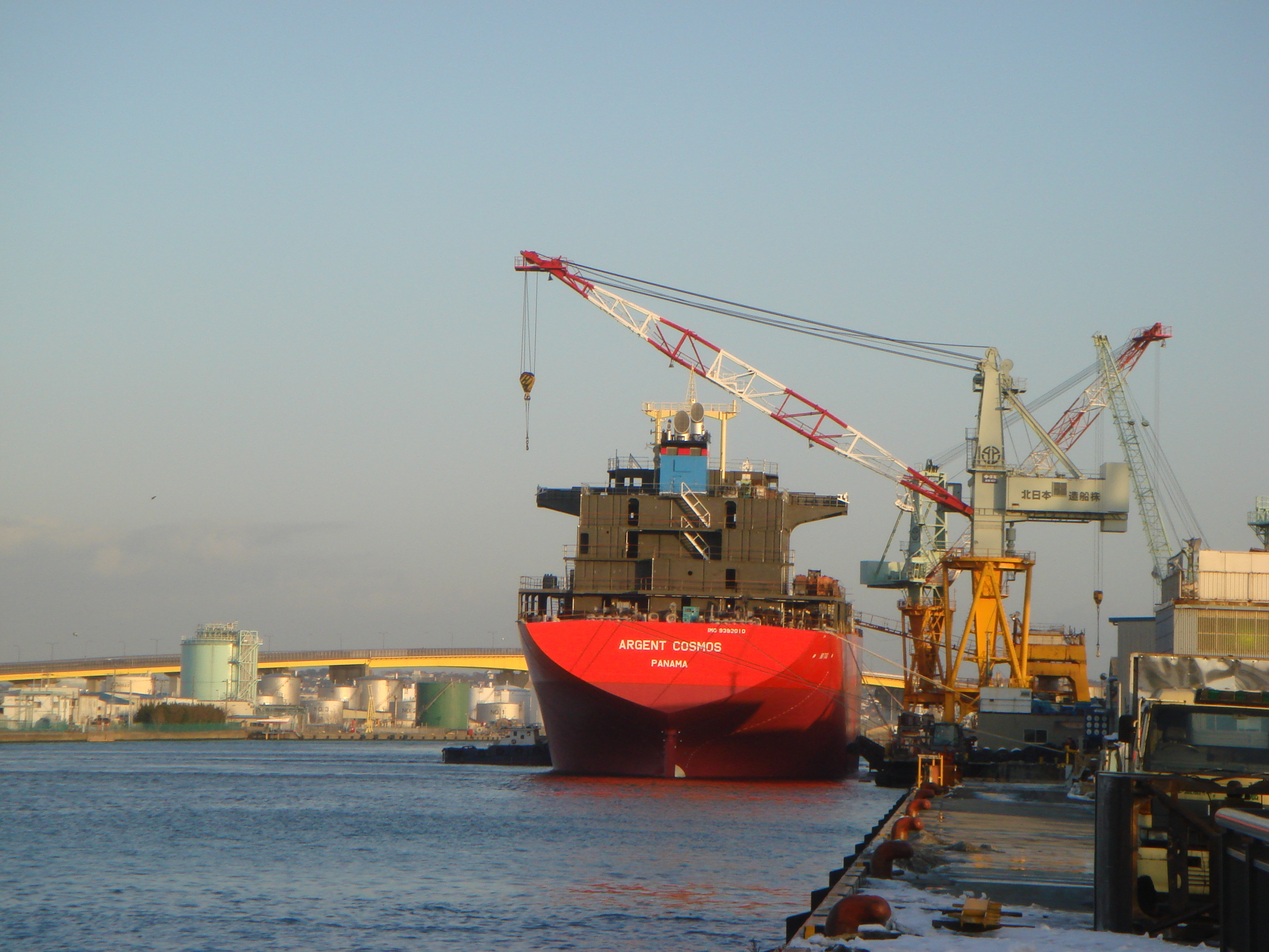 The first industrial port is looked at in Hachinohe city Aomori,Japan.